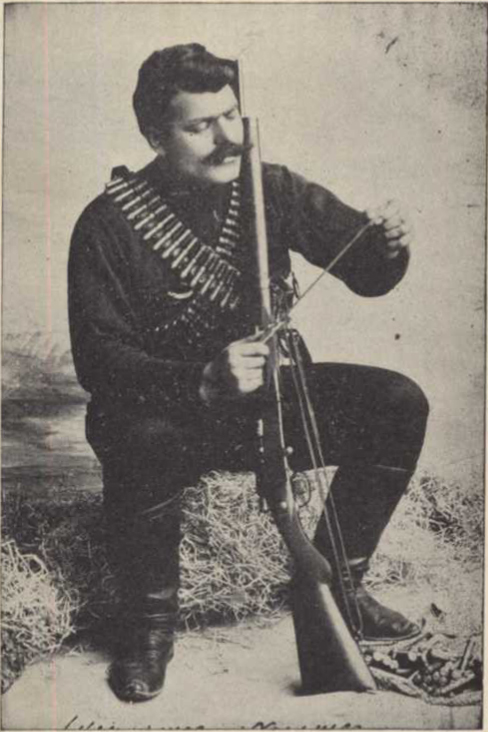 Sebastatsi Murad reloading his gun